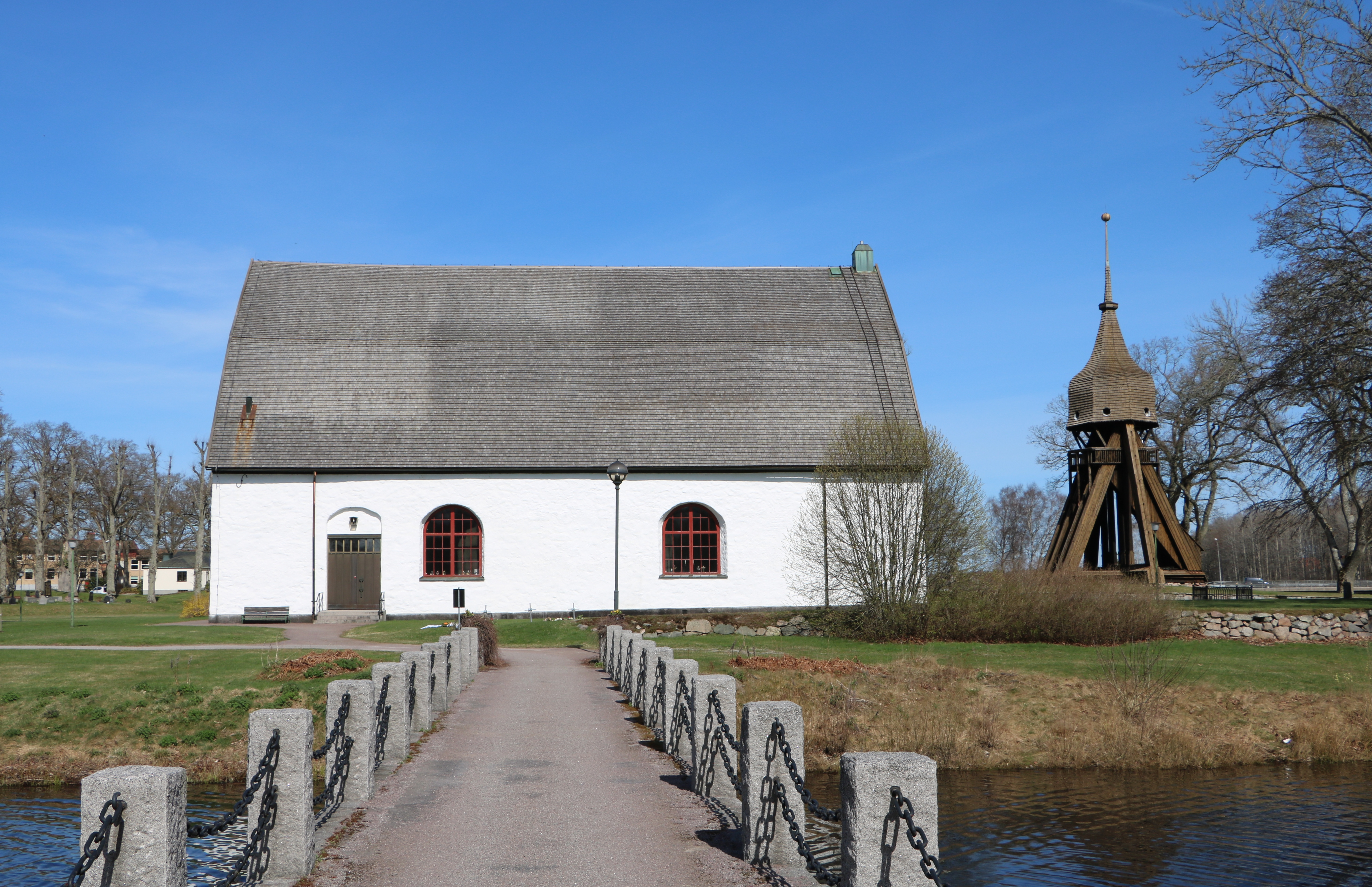 Vissefjärda Church. 1759, a decision was made to build a new Church. The Church was built in a distinctive style for Kalmar area. It was inaugurated on February 28, 1773 by Bishop Karl Gustav Schröder.